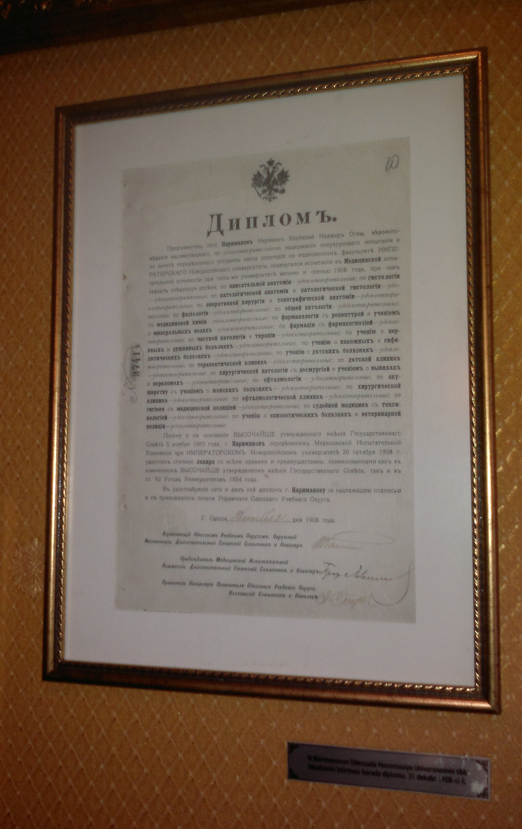 Diploma of Nariman Narimanov (31 December 1908)